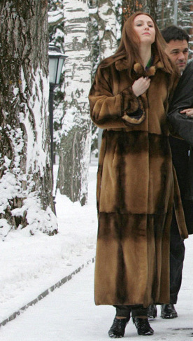 “The president meets United Russia representatives”. November 17, 2007. Ballerina Svetlana Zakharova. Cutted.